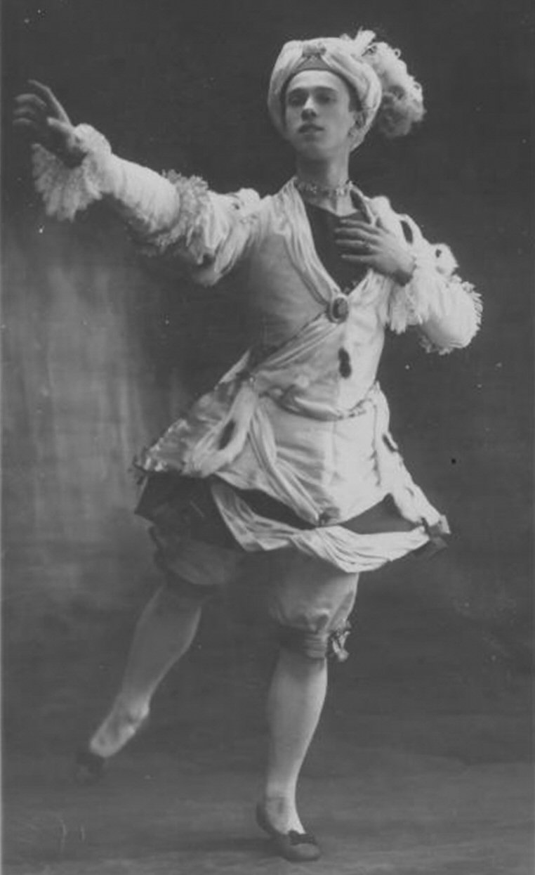 Nijinsky in Le Pavillon de l´Armide